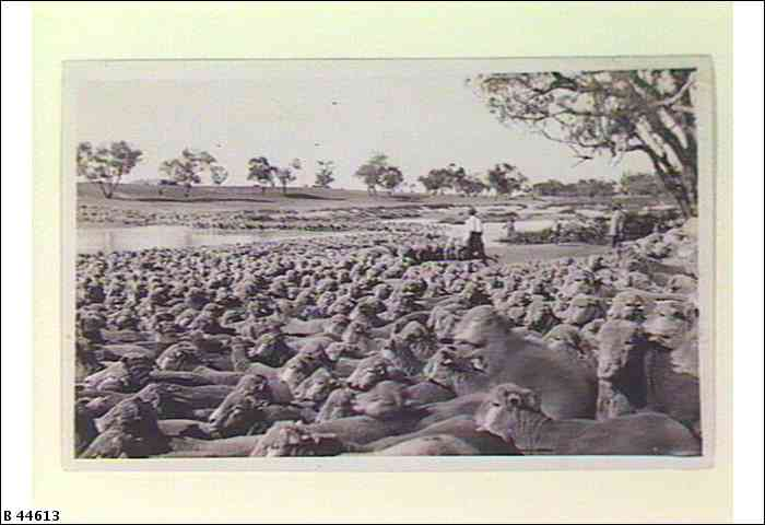 Driving sheep at Innamincka Bringing (2129) sheep to Innamincka Station from Cordillo Downs ca. 1915